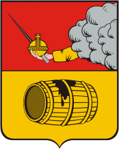 Velsk (Arkhangelsk oblast), coat of arms (1780)